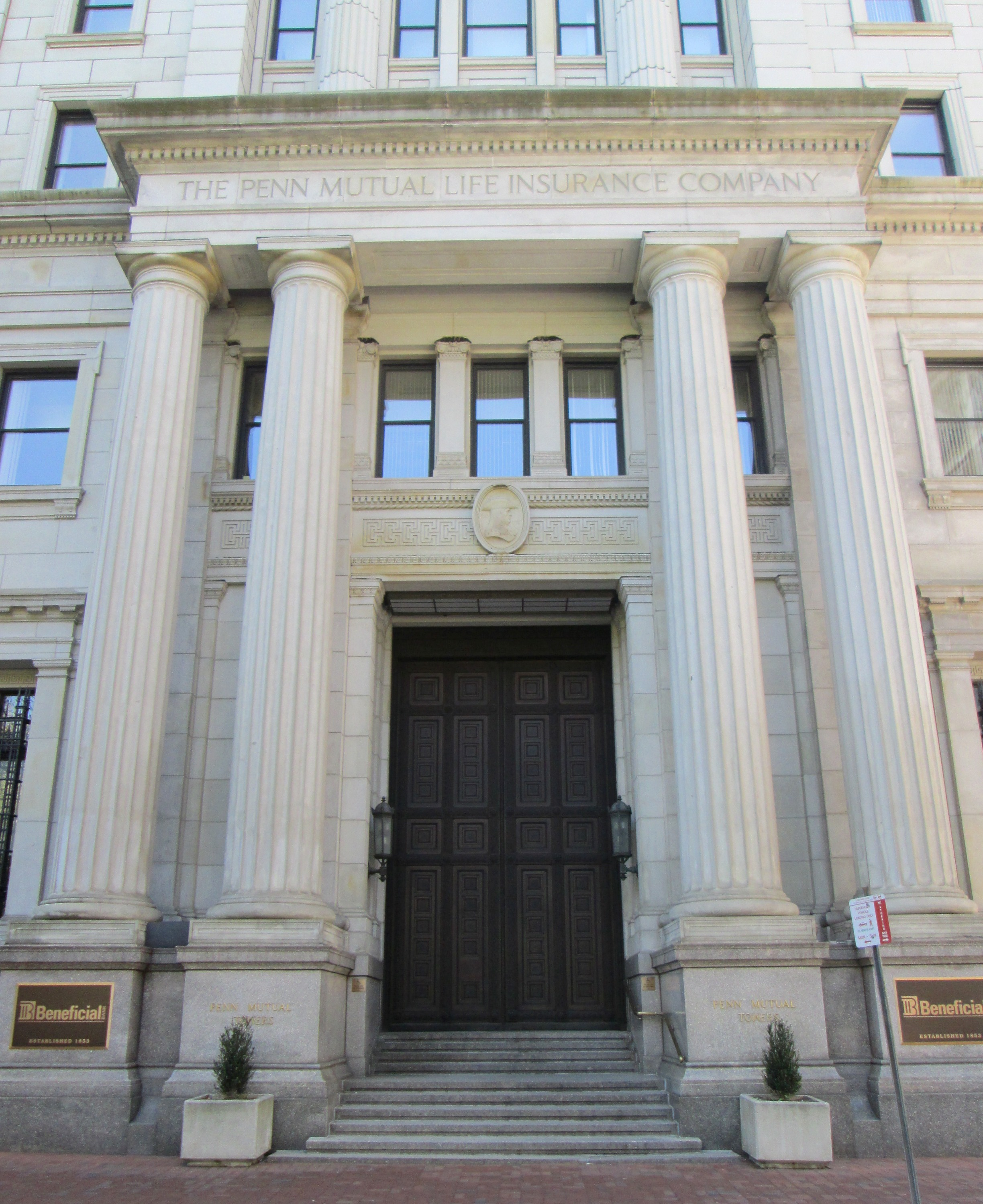 The Penn Mutual Life Insurance Company was founded in Philadelphia, Pennsylvania in 1847. It was the seventh mutual life insurance company chartered in the United States. Their original Philadelphia headquarters building at the corner of Walnut and 6th Streets was a cast-iron structure that was replaced in 1913 by one designed by Edgar Seeler. This was added to on the east side in 1931, and again in 1969-710 by a glass tower at 510 Walnut Street which retained the 1838 Egyptian Revival facade of John Haviland's Pennsylvania Fire Insurance Company Building, the east portion and cornice of which was designed by Theophilus Chandler in 1901, as a stand-alone which serves as a screen to the building's entrance courtyard. The tower, which won on AIA Honor Award in 1977, was designed by Mitchell/Giurgola Associates. (Suurces: Philadelphia Architecture: A Guide to the City (2nd ed.), "Washington Square" on and "Penn Mutual Tower" on )